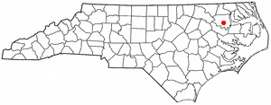 Category:North Carolina Dot Maps